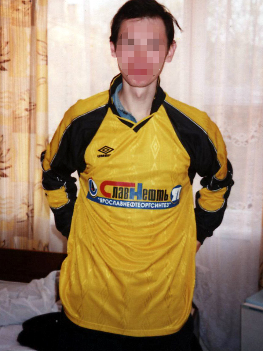 The home T-shirt of the FC Neftyanik Yaroslavl. Домашняя футболка ФК Нефтяник Ярославль.